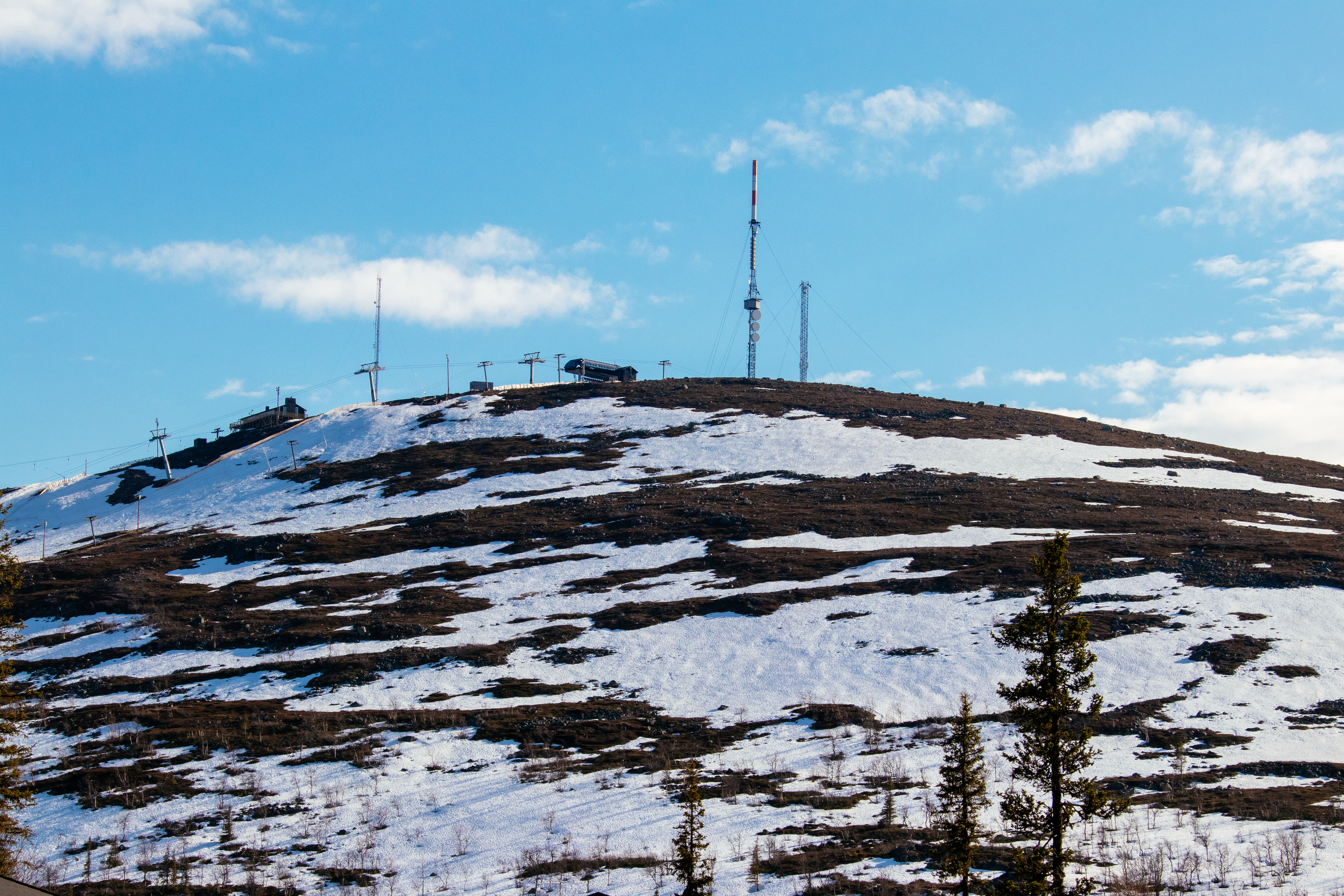 Some of the ski lifts at the Dundret ski resort